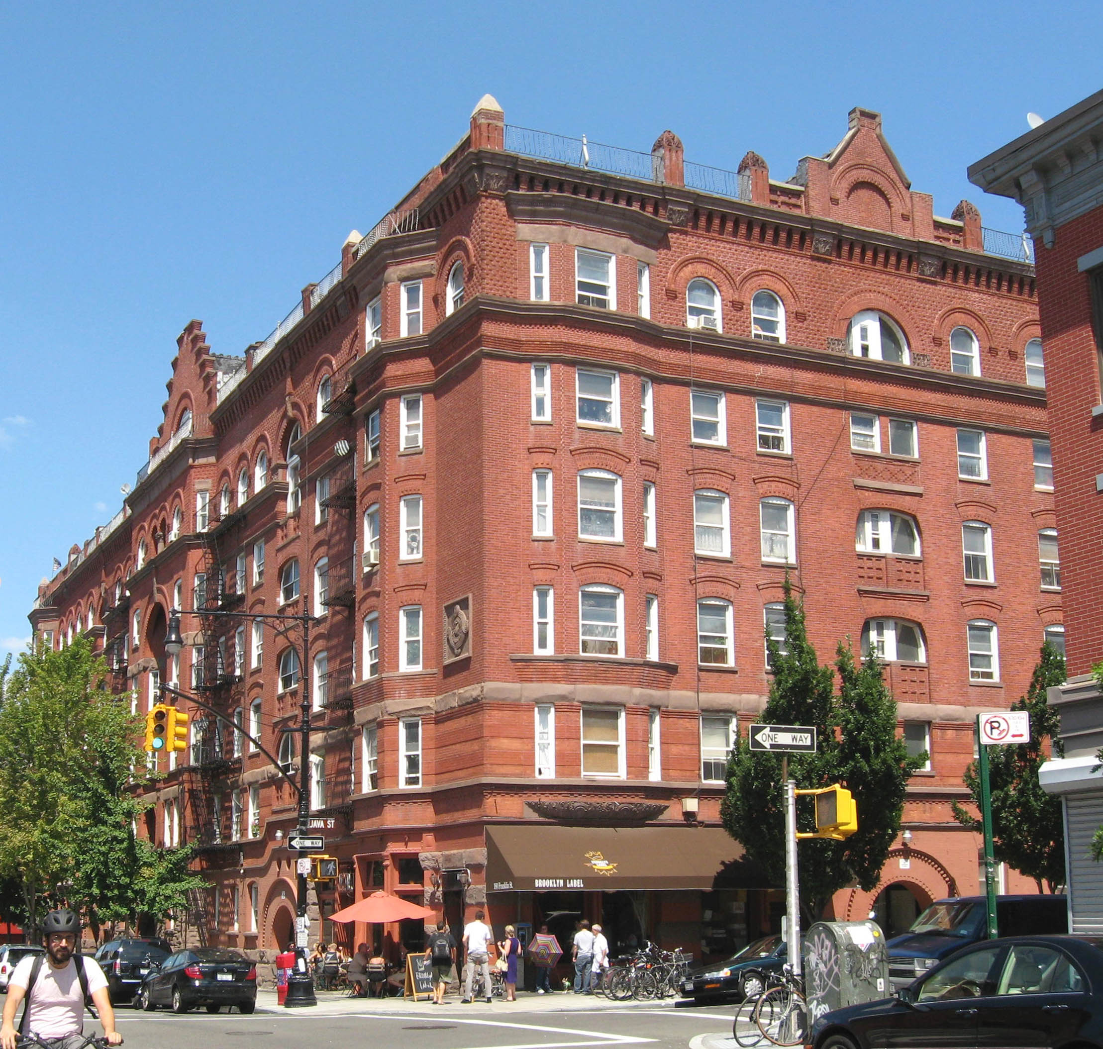 Looking north on a sunny midday at the Astral Apartments, a List of Registered Historic Places in Kings County, New York on Franklin Street in Greenpoint, Brooklyn, built as affordable housing for employees of Charles Pratt's Astral Oil Works.